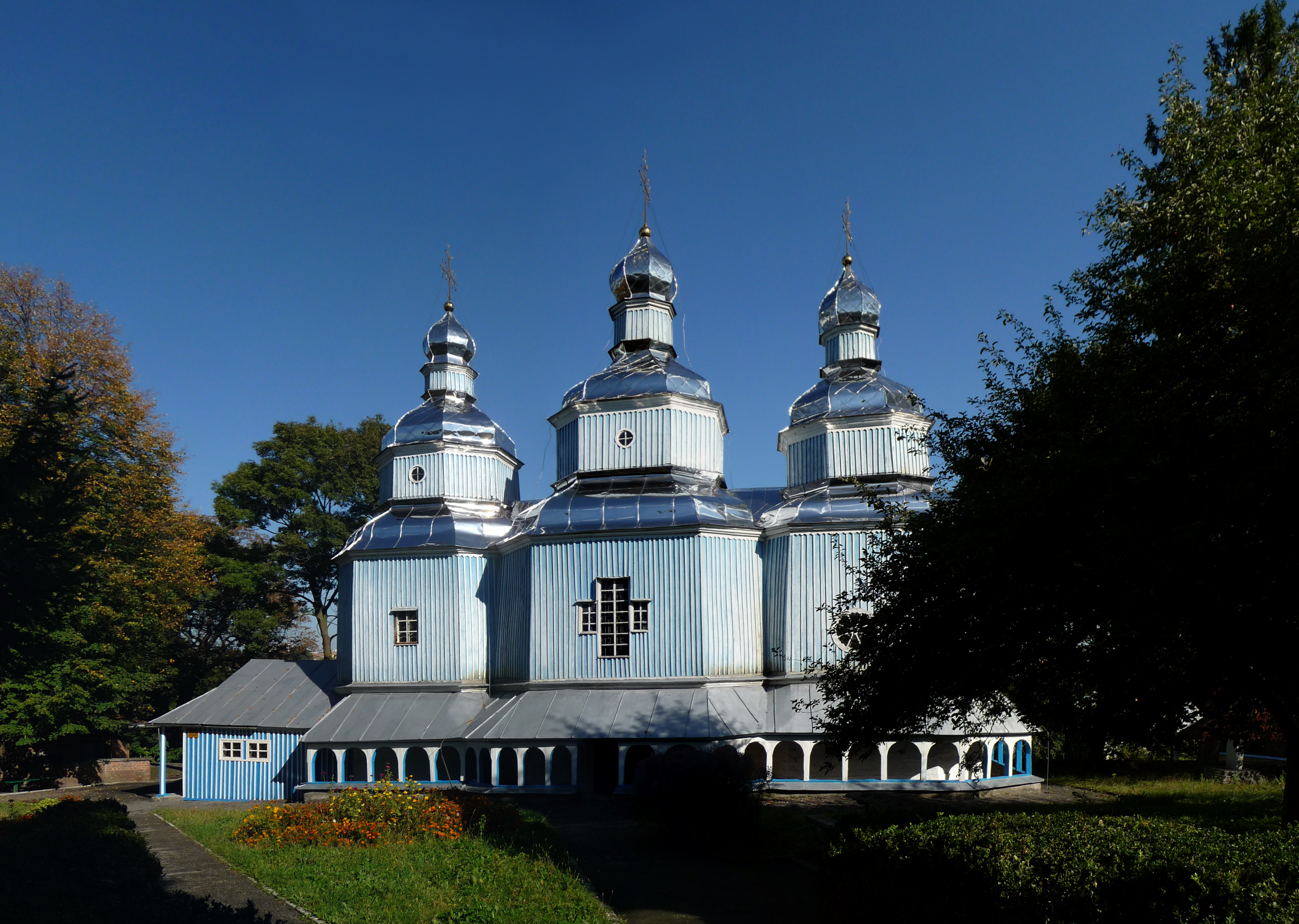 St. Nicholas wooden orthodox church in Vinnitsa, Ukraine. Build in 1746.